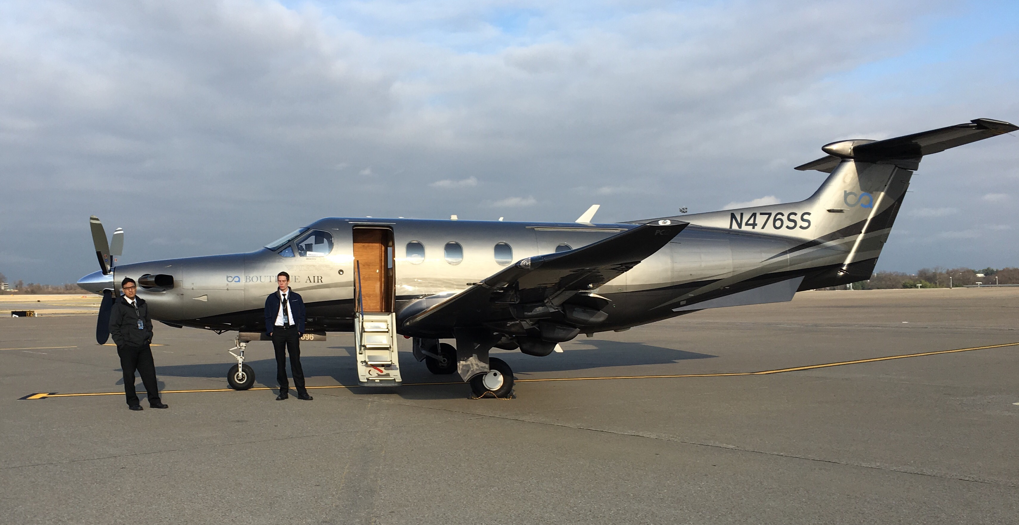 Boutique Air Pilatus PC-12 Exterior